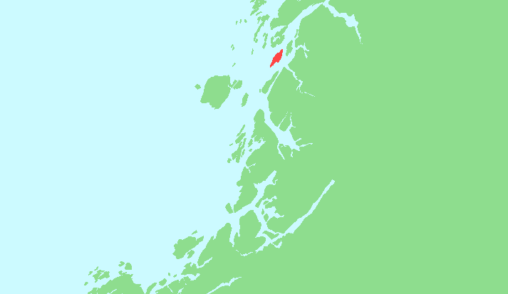 Locator map of Mindlandet, Nordland, Norway